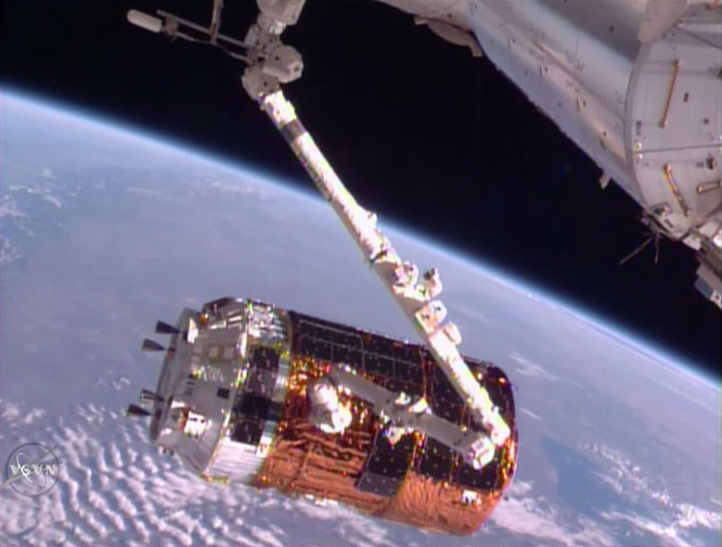 Japan’s HTV-6 cargo craft is pictured in the grip of the Canadarm2 shortly after it was captured Tuesday morning.